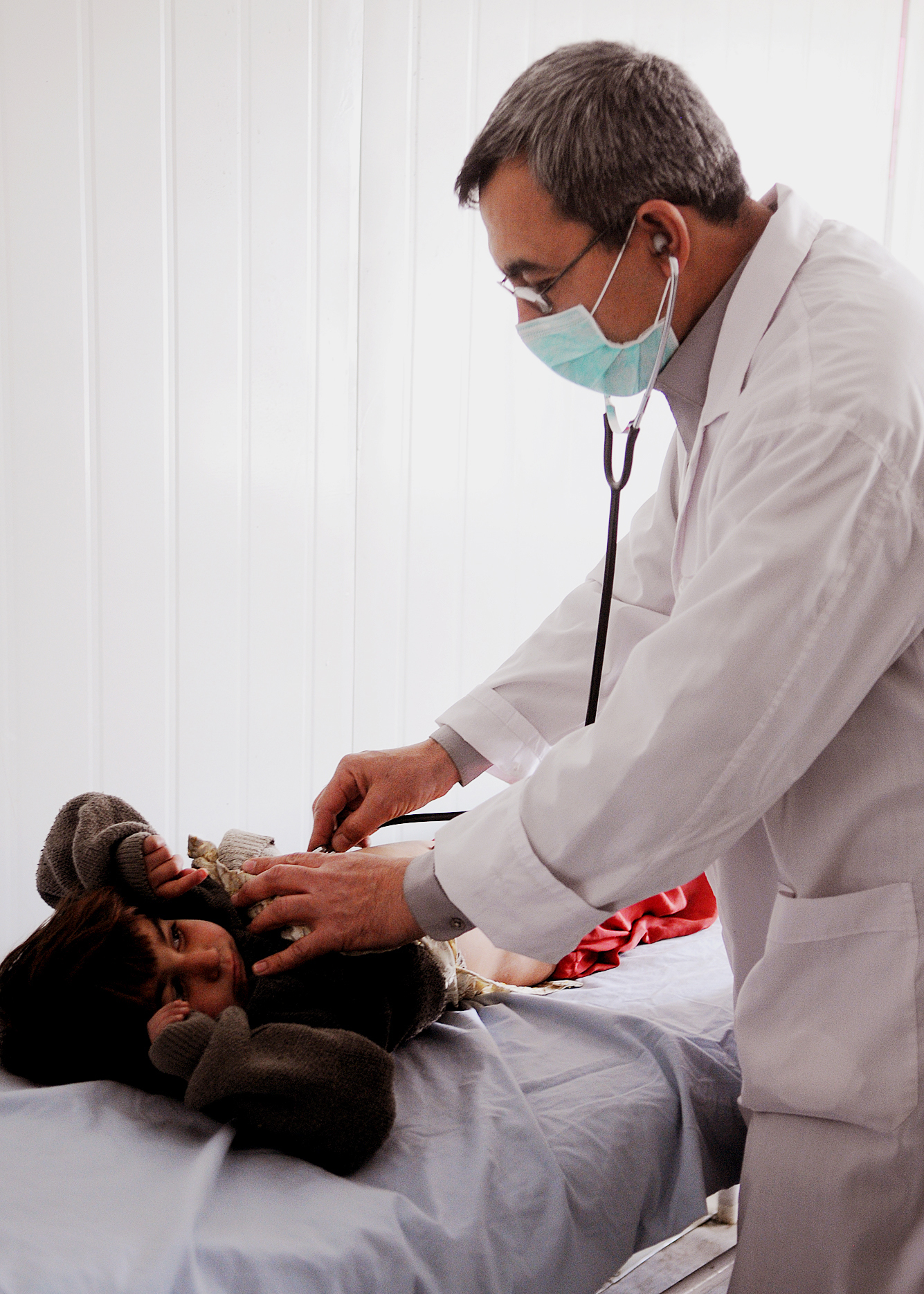 KABUL, Afghanistan -- A Turkish pediatrician from the International Security Assistance Force listens to an Afghan child's heartbeat Jan. 7 at a clinic at Camp Dogan. Approximately 400 Afghan locals come here regularly to receive medical treatment from a team of Afghan and Turkish doctors. (ISAF Joint Command photo by U.S. Air Force Staff Sgt. Logan Tuttle)